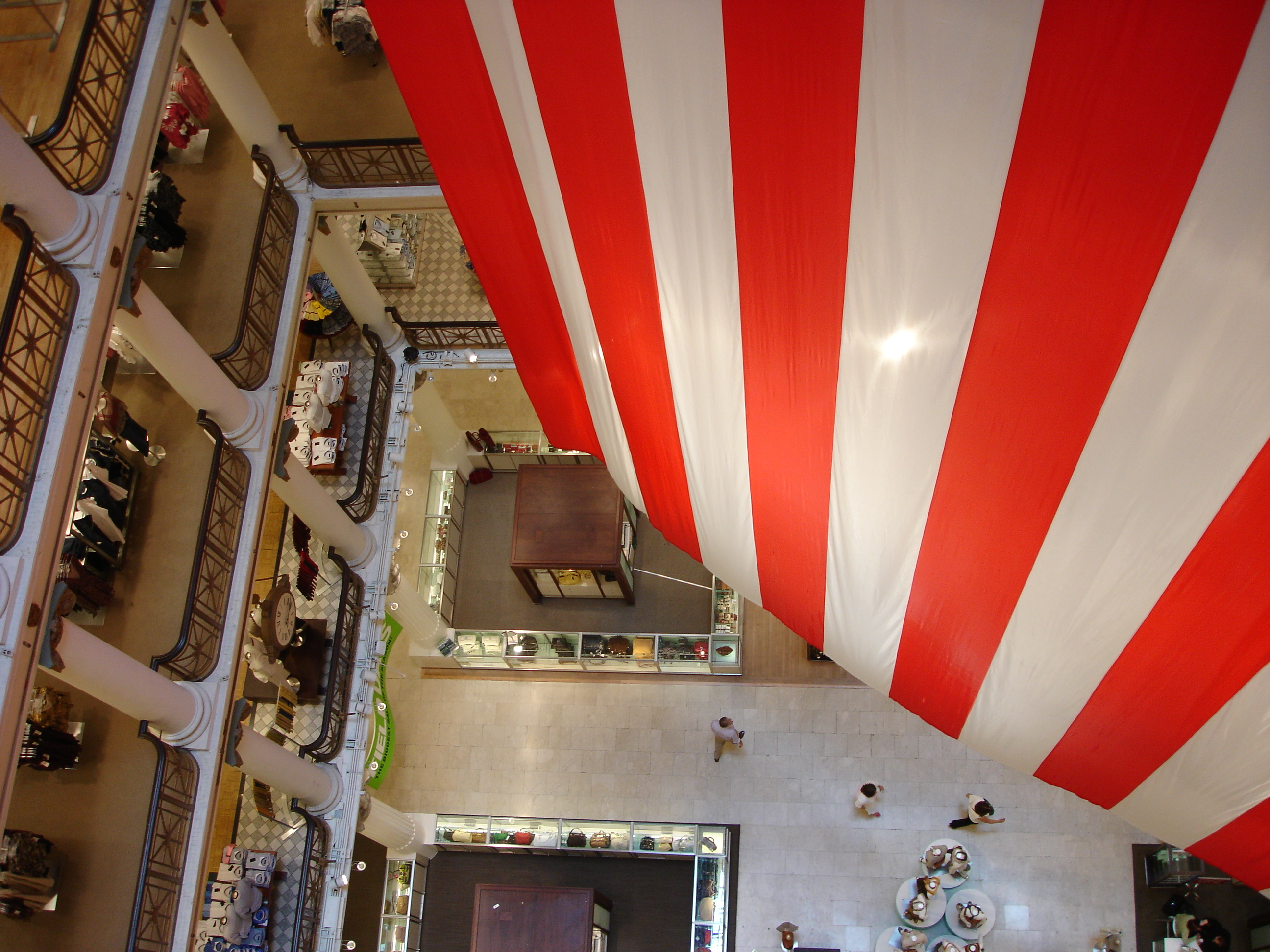 Looking down in the store with flag in foreground.